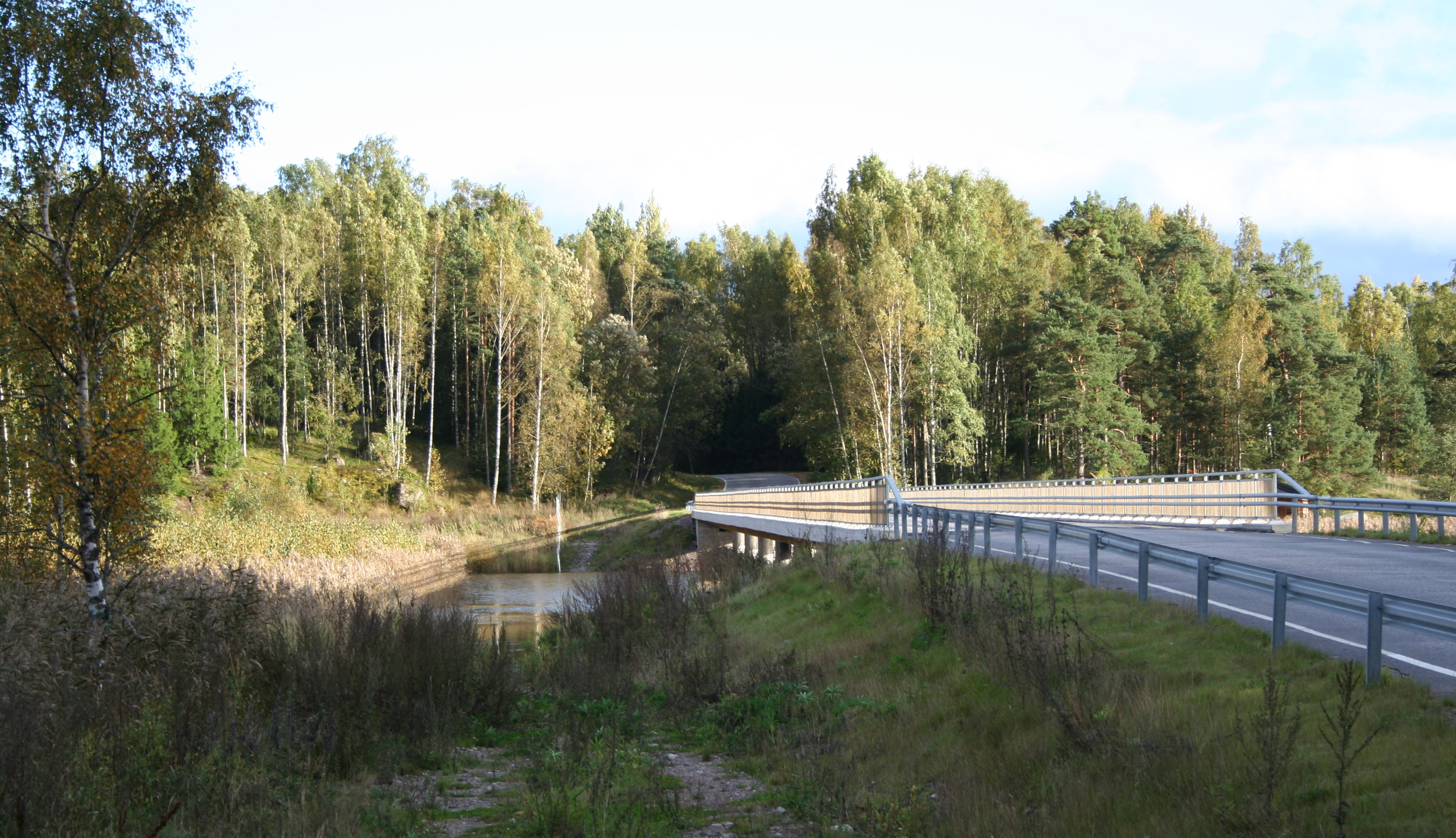 Varnas bridge, Kirkkonummi, Finland.